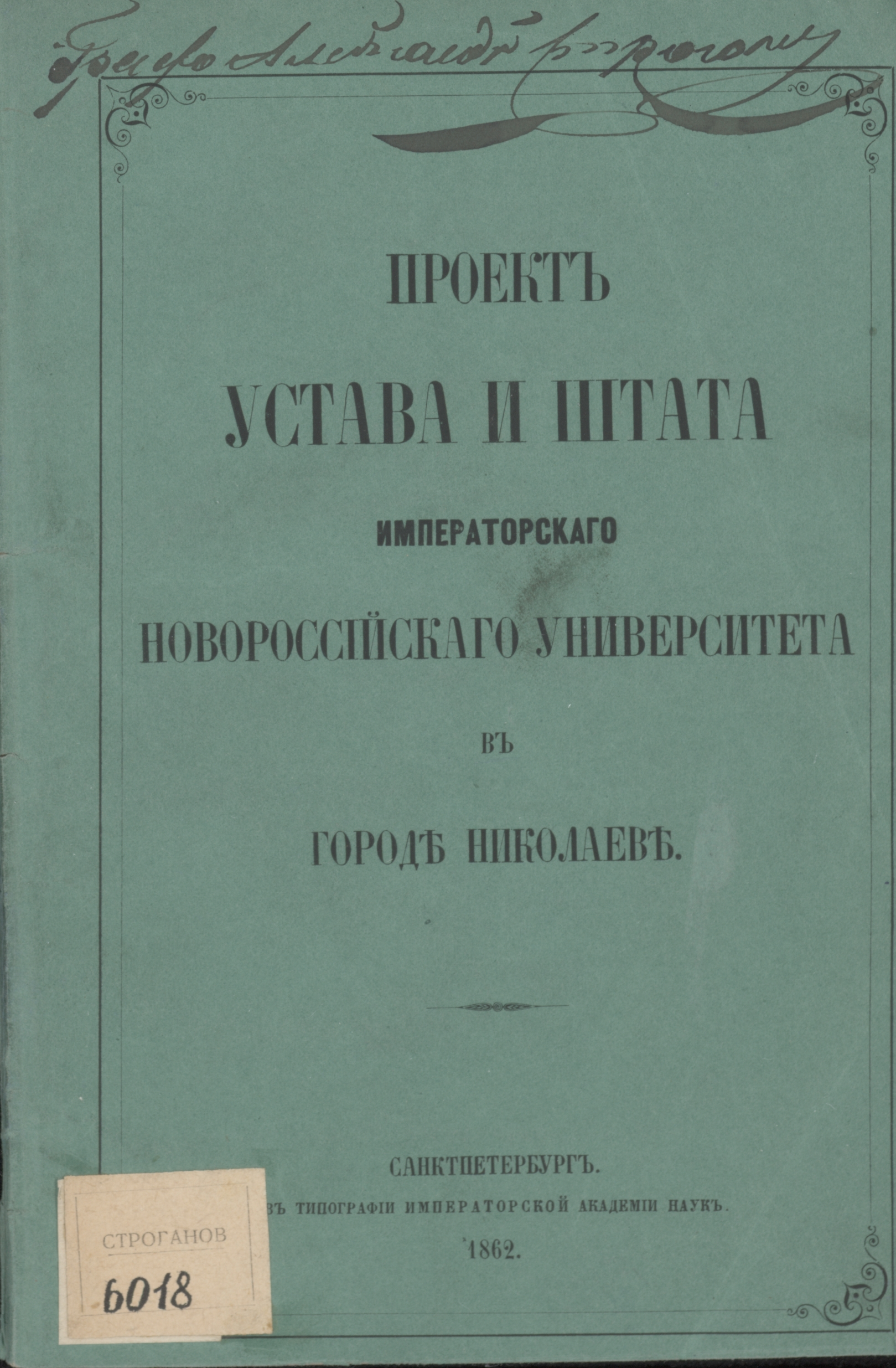 ProektUstava